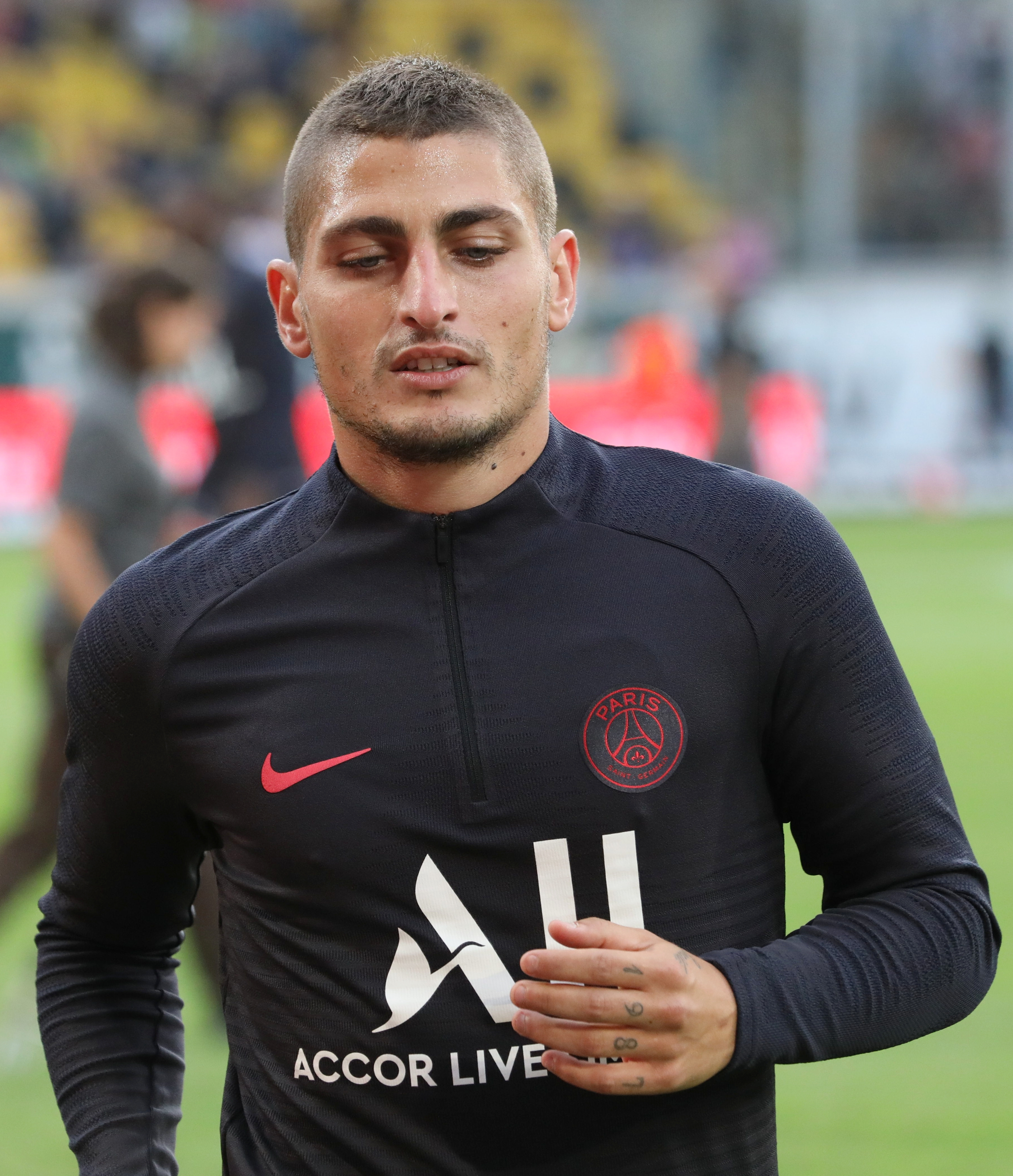 Test game, 17th July 2019: SG Dynamo Dresden vs. Paris Saint-Germain 1:6 (0:3)